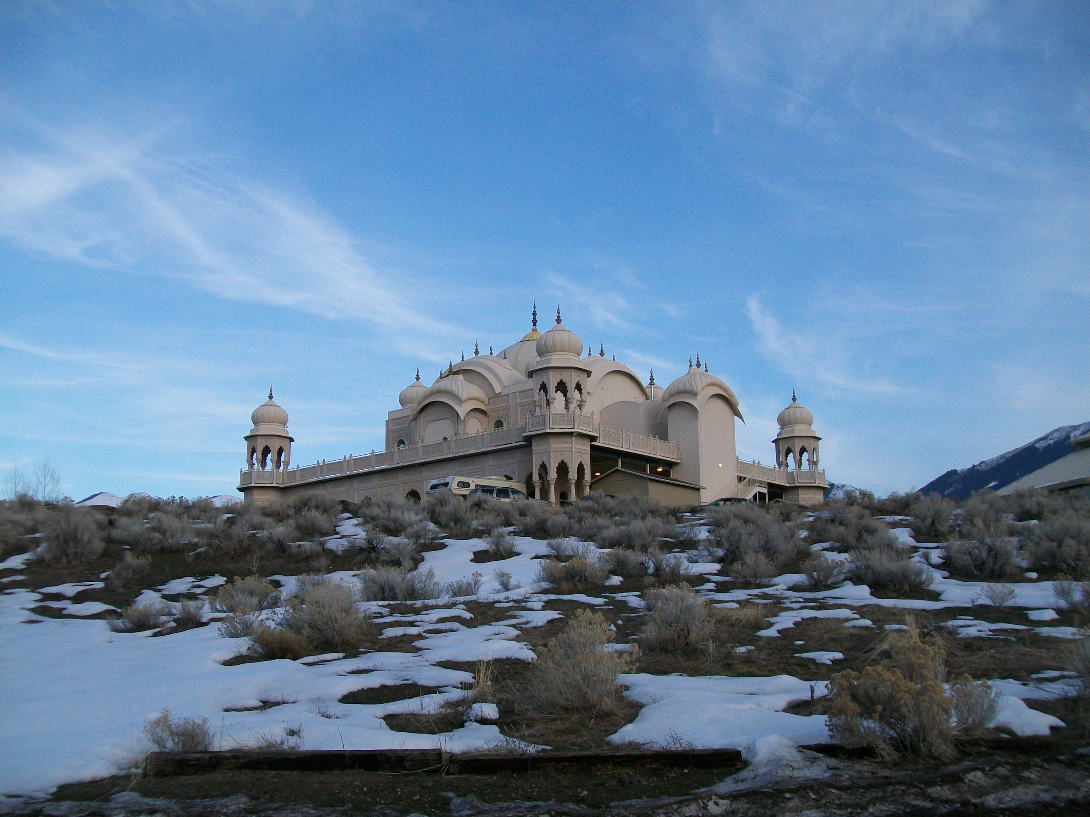 A view of the from the parking lot